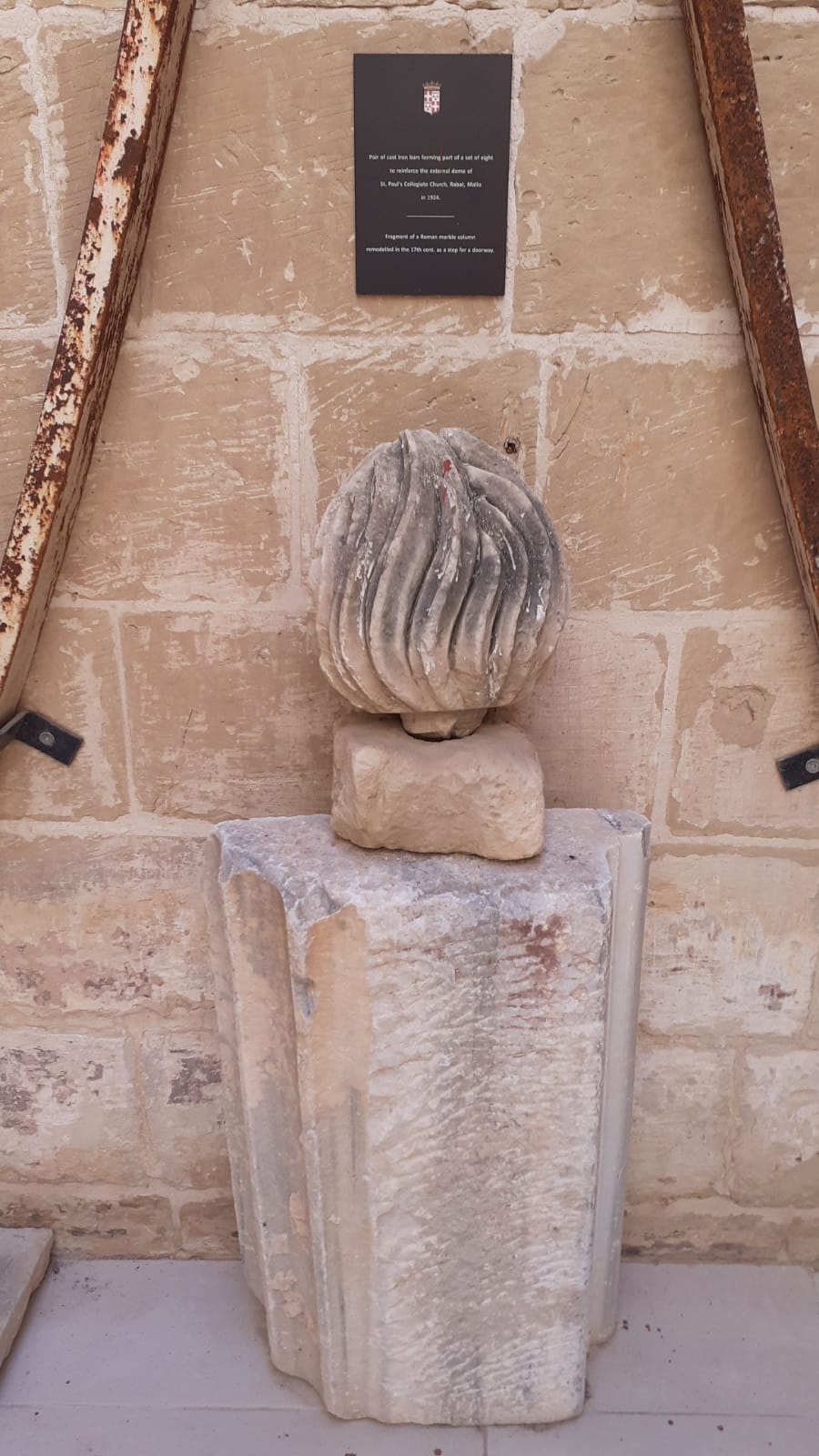 Wignacourt Museum main corridor and cells exhibitions